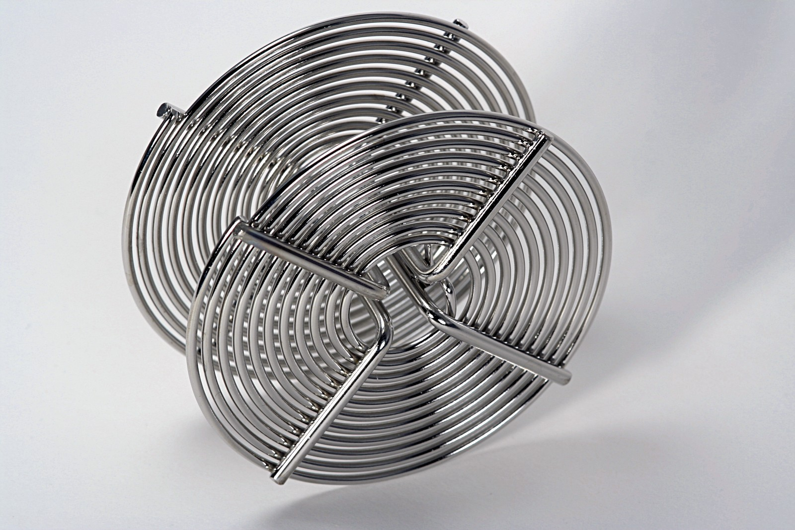 A 35mm stainless steel film reel used for developing film.